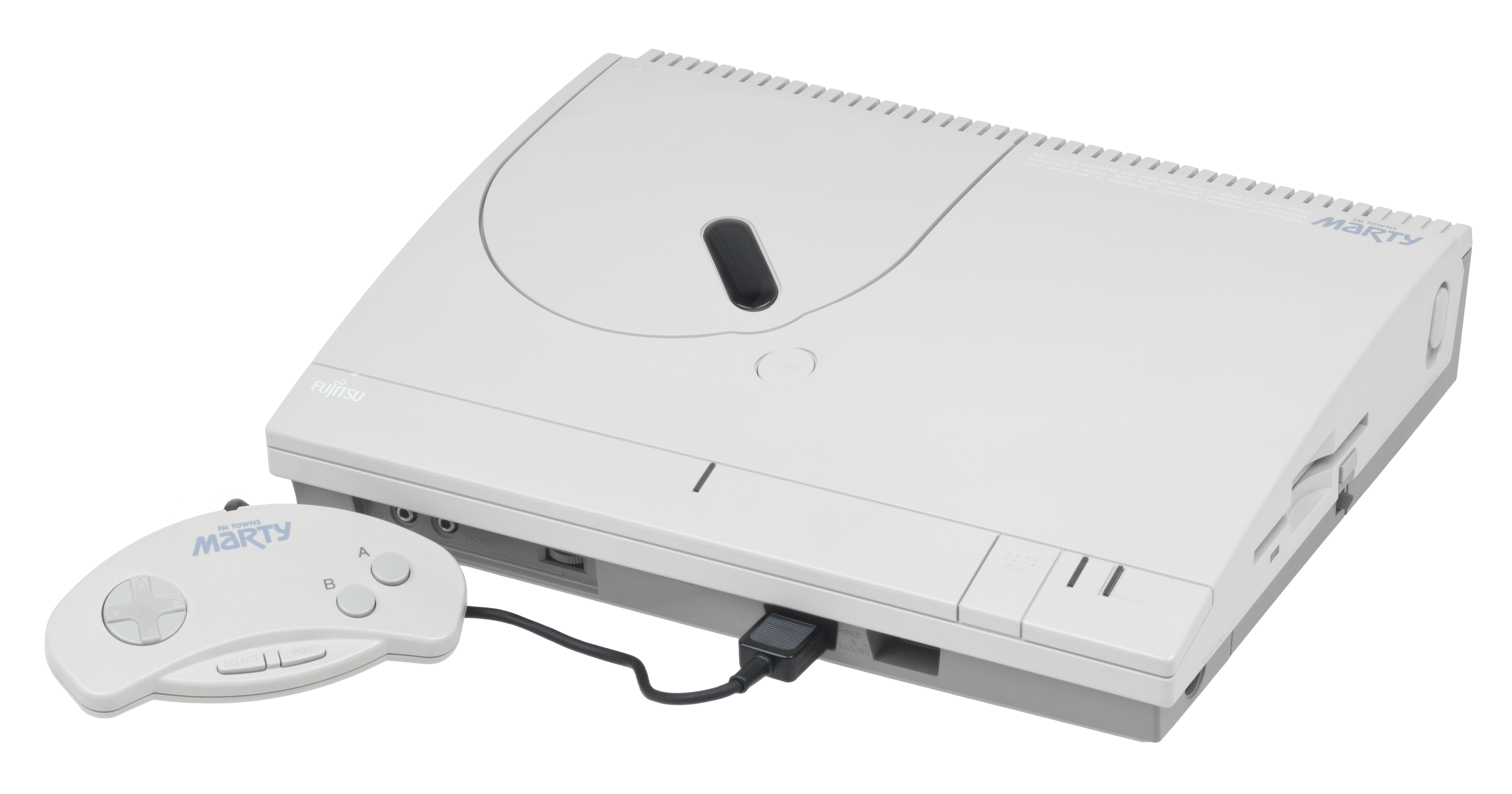 An FM Towns Marty video game console, released only in Japan by Fujitsu.